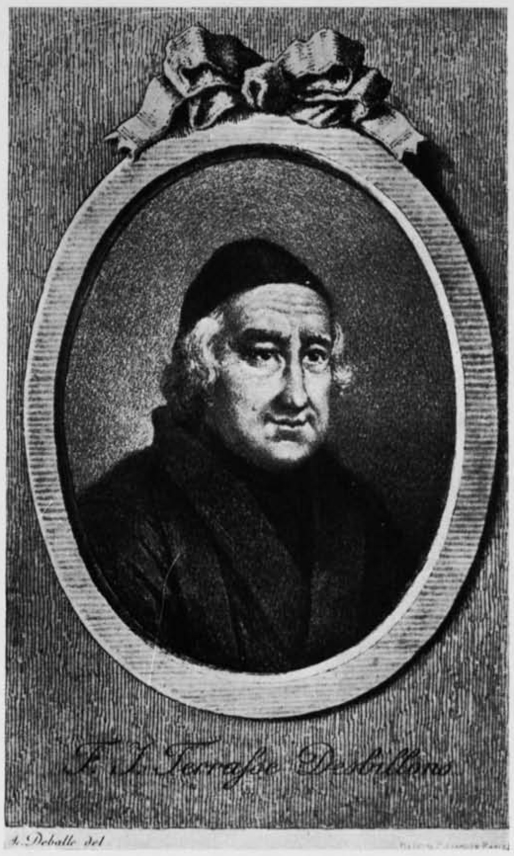 François-Joseph Terrasse Desbillons SJ, french Jesuit and poet